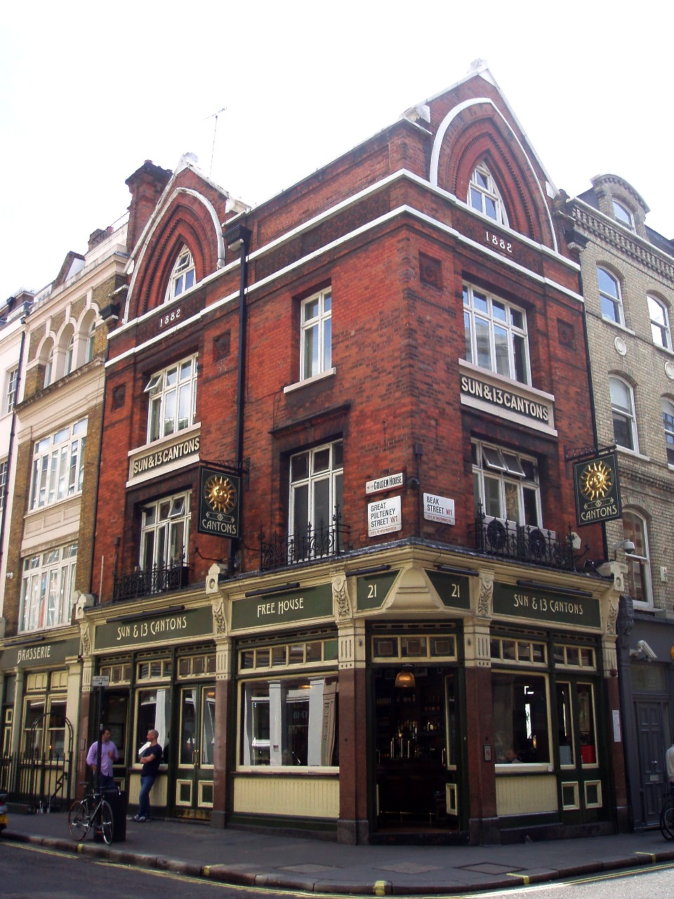 Swiss-styled pub in Soho, on the corner of Beak St, not exactly a traditional-looking Fuller's pub, but then it's a fairly loud and buzzy place. Address: 21 Great Pulteney Street. Owner: Fuller Smith Turner (website). Links: Randomness Guide to London Fancyapint Beer in the Evening Dead Pubs (history)